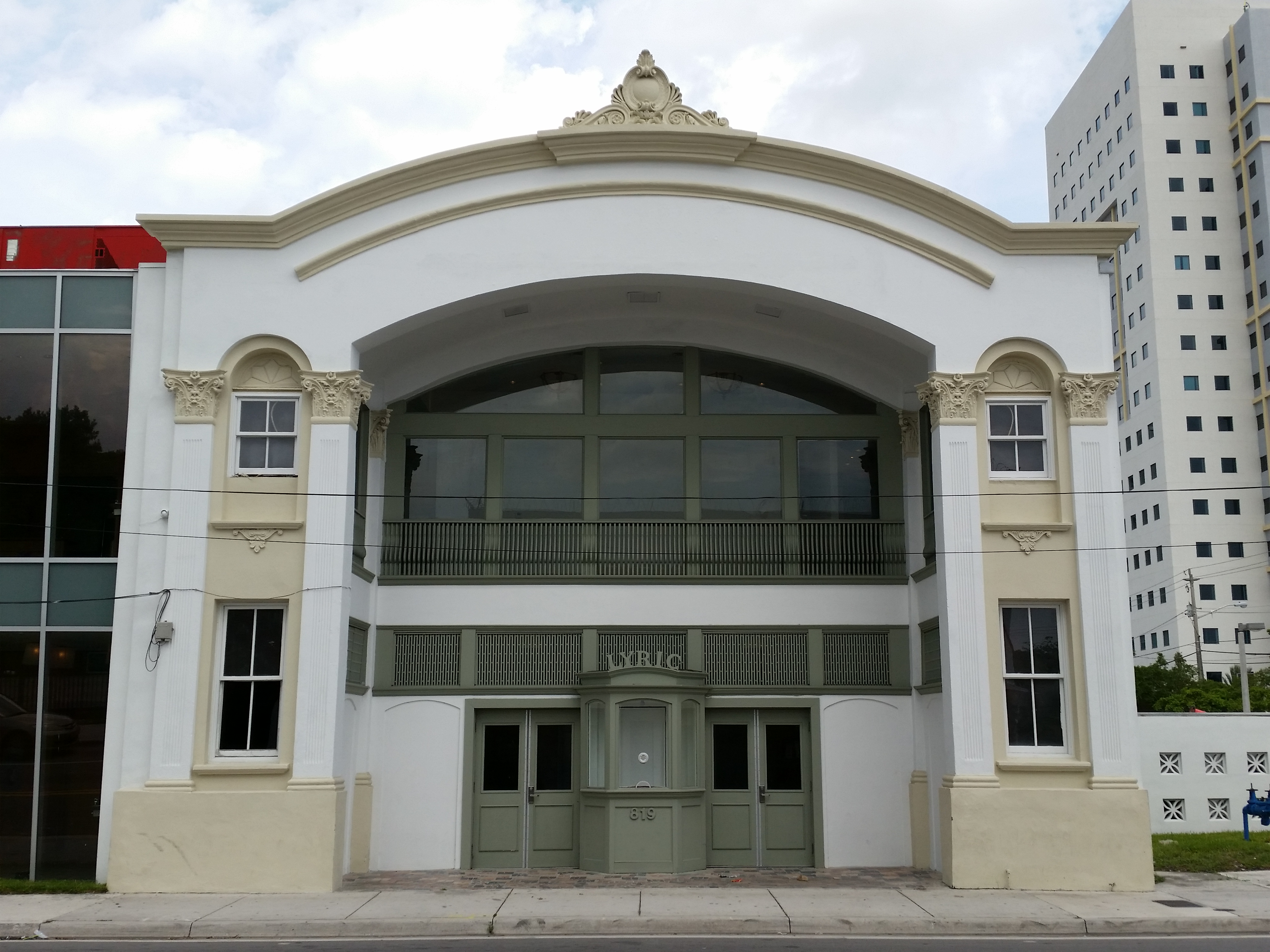 Overtown: Historic Overtown Lyric Theatre, 819 NW 2nd Ave, Miami, FL